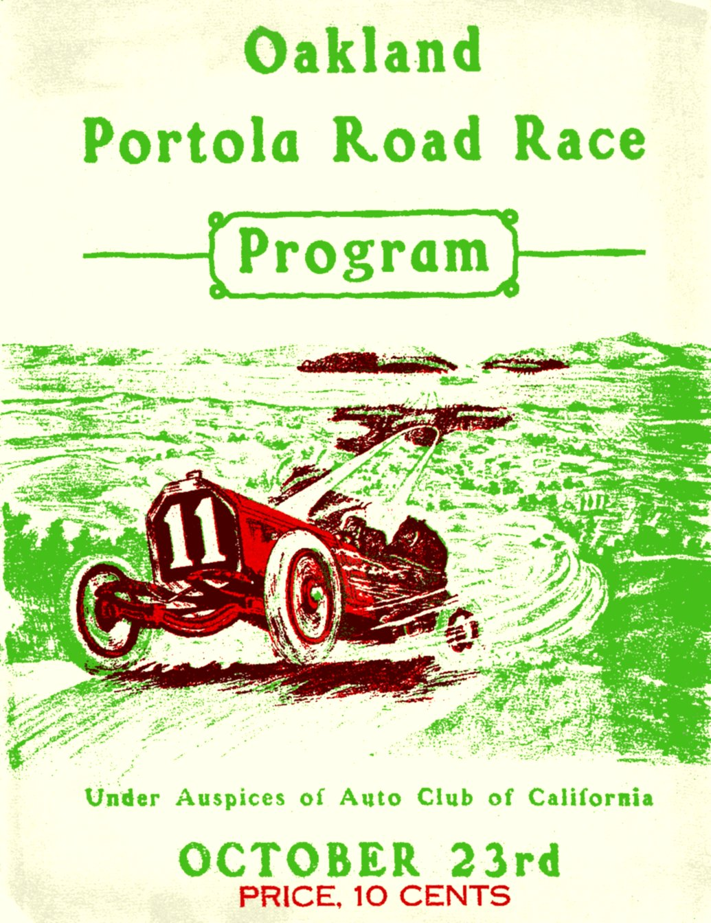 The cover of the race program for the Oakland Portola Road Race held in Oakland, California, on October 23, 1909, as part of the Portola Festival celebrating San Francisco's renewal after the 1906 earthquake and fire.